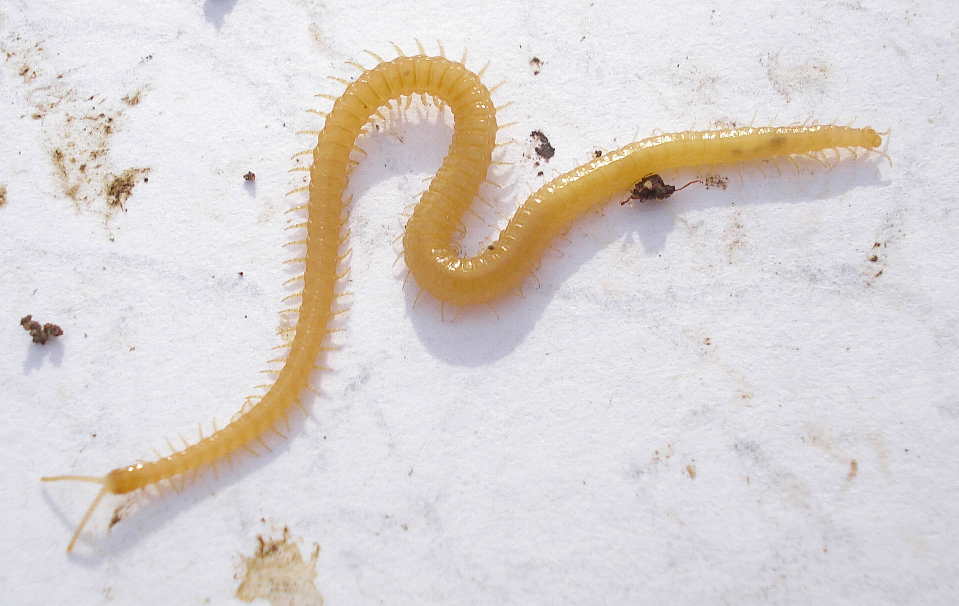 Order: Chilopoda Date: February 25, 2009 Recorder: Mick E. Talbot Determiner: Mick E. Talbot Species: Geophilomorpha Gender: ? Abundance: Often found when looking under dead bark Habitat: Damp Woodland. Location: Backies Woods, Boultham Moor, Lincoln, LN6, VC53 Grid Reference: SK95876837 Comment: Please copy grid reference then click on it. You will be taken to the "Grid Reference Plotter", once there paste the copied grid reference into the search box, then click the search icon, and your there.